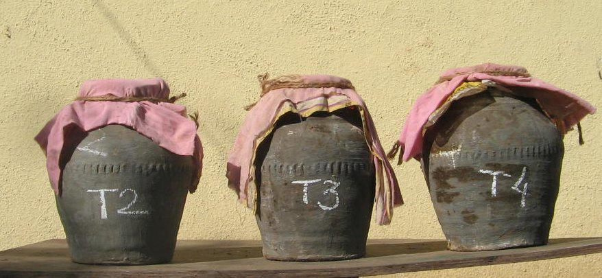 (Photos by Shrikant M. Navrekar,DateXXX) This urine storage method is very popular among organic farmers in which a mixture of cow dung (1 kg) Cow urine (1 lit) and jaggery (10 gm) is kept in earthen pot for 7 days. The results of this method are very much encouraging.experiment is being carried out under the project to replace cow urine with human urine. The results are being tested on coriander.